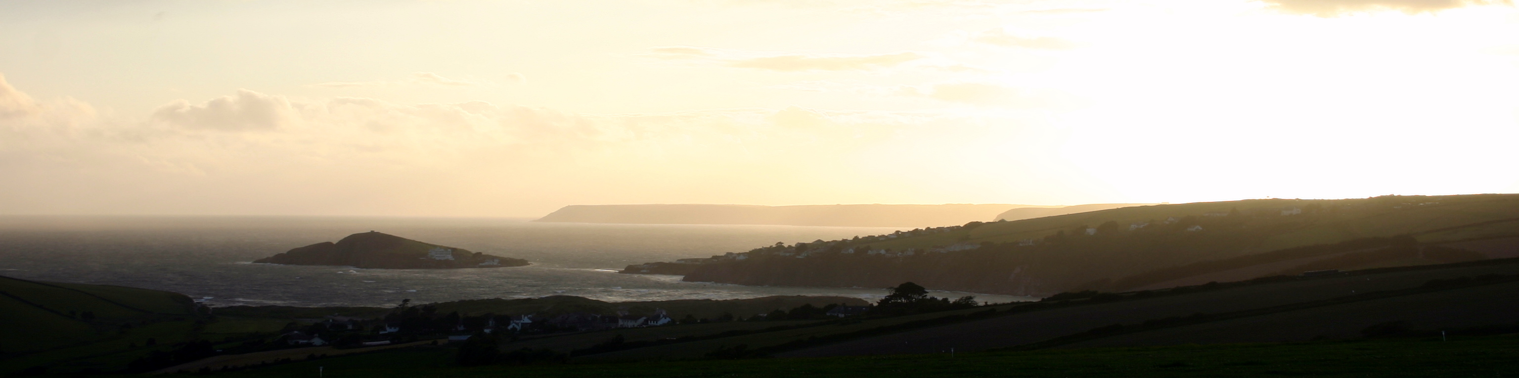 Panoramic photo of Burgh Island, Devon, taken at sunset July 2011 from Thurlestone